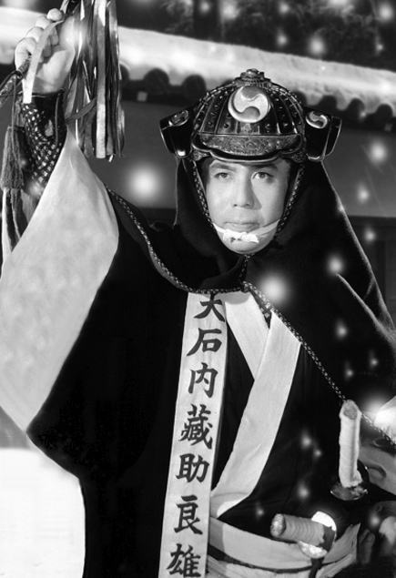 Kōshirō Matsumoto VIII (1910–82) as Ōishi Kuranosuke, in the 1954 Shōchiku motion picture Chūshingura - Hana no Kan - Yuki no Kan